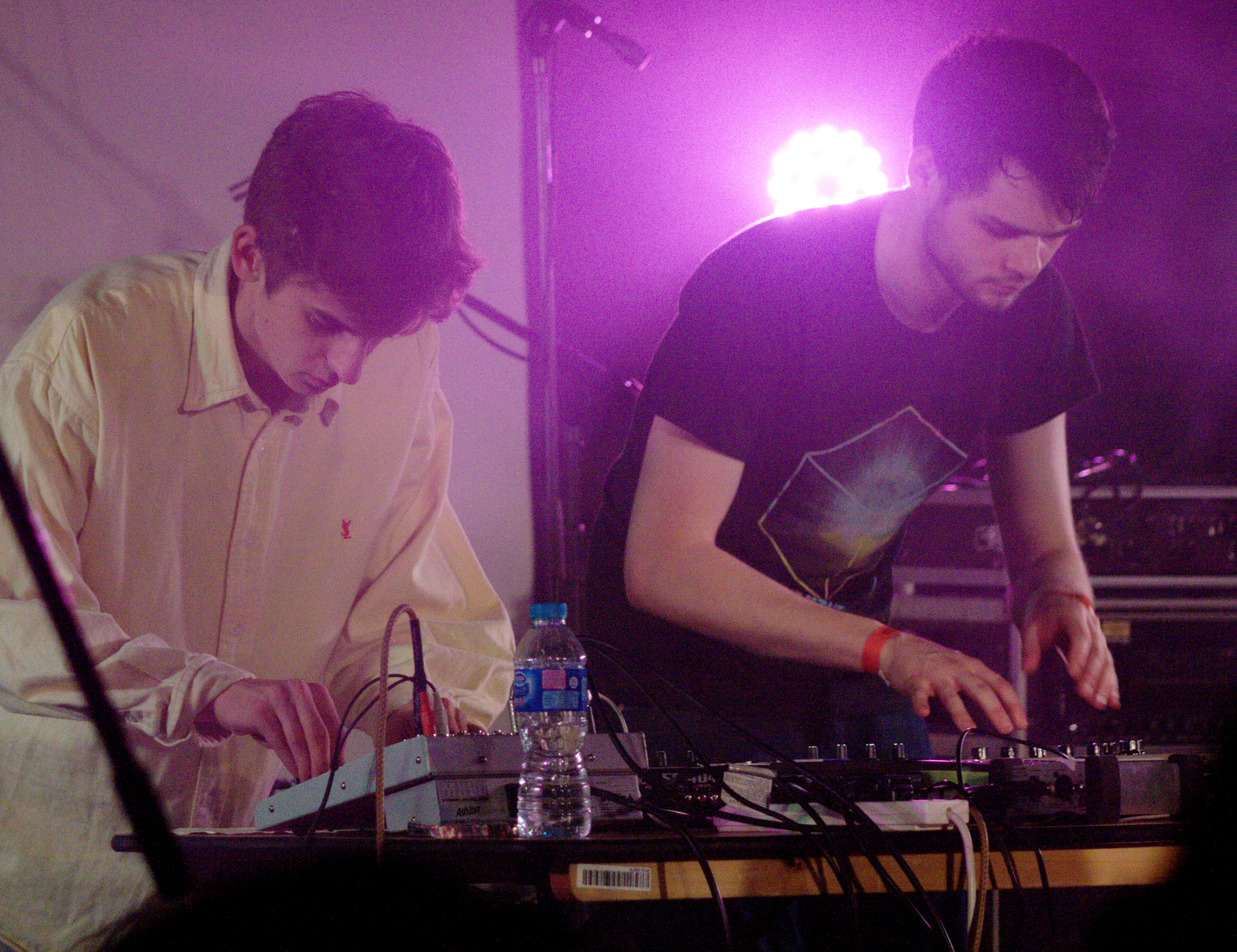 Jamie Bulled and Gus Lobban performing with Kero Kero Bonito at the Brighton Japan Festival